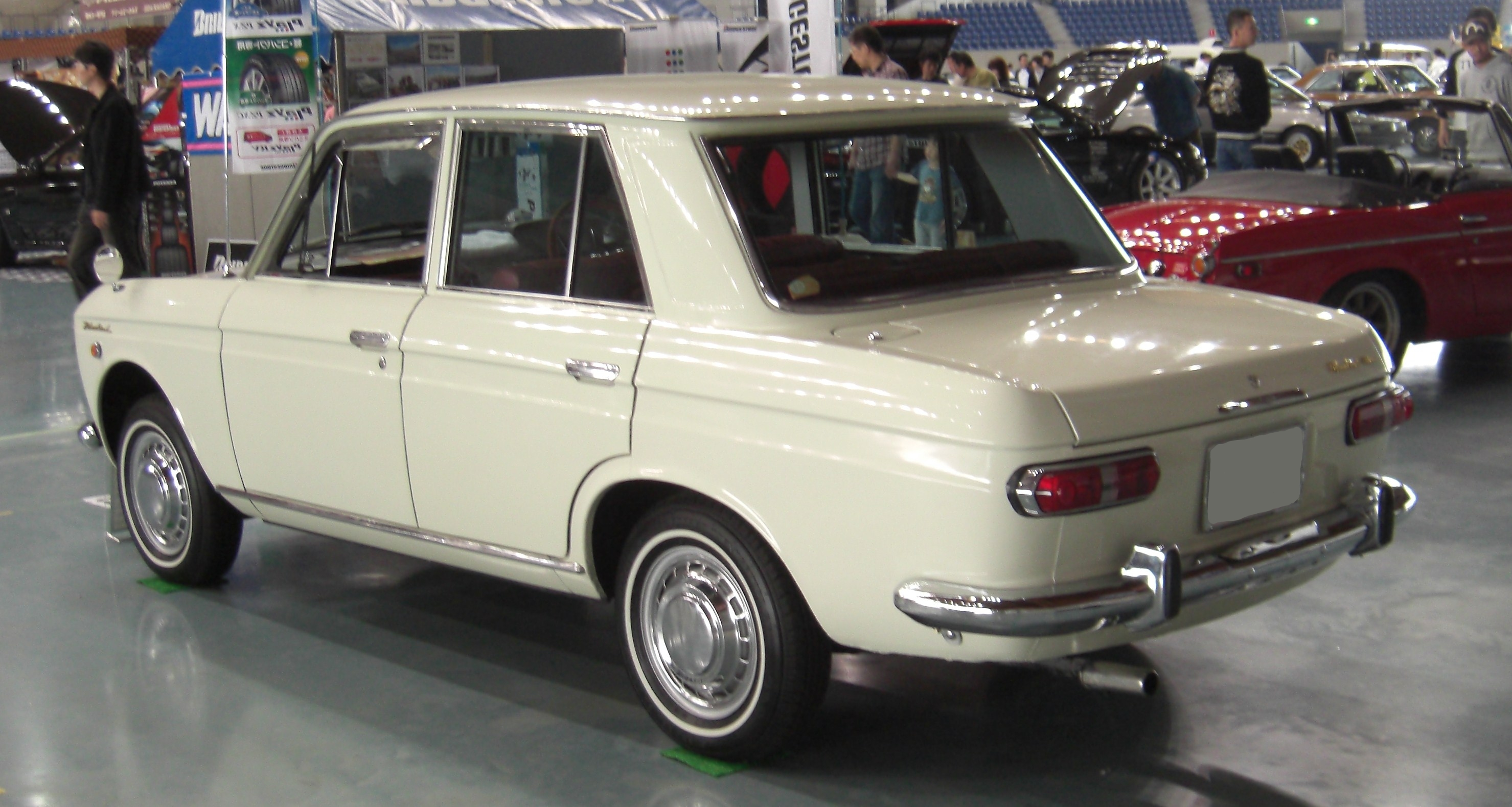 Datsun Bluebird 410